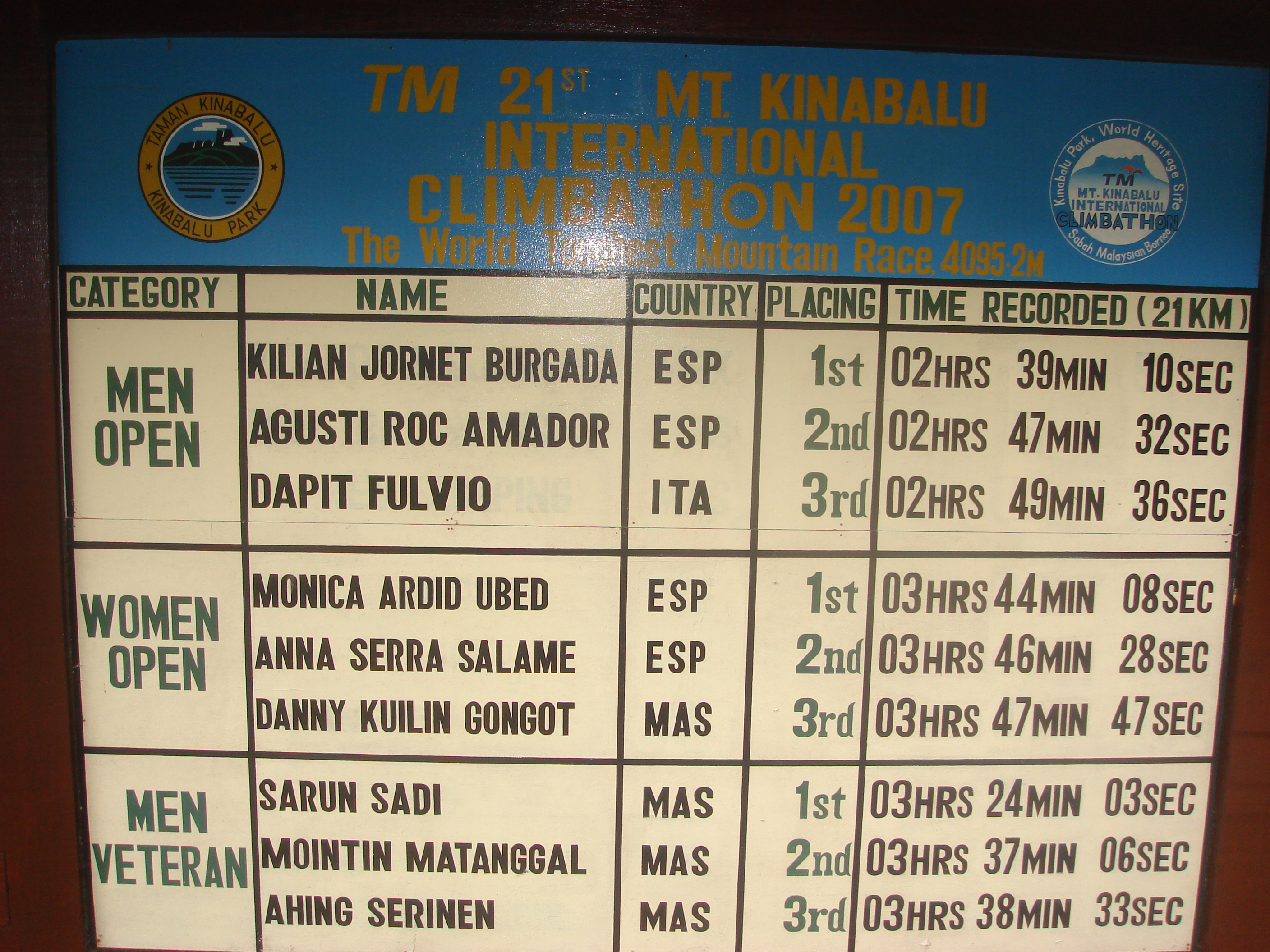 2007 Mt Kinabalu Record. 21st Mount Kinabalu International Climbathon 2007 - Hall of Fame.